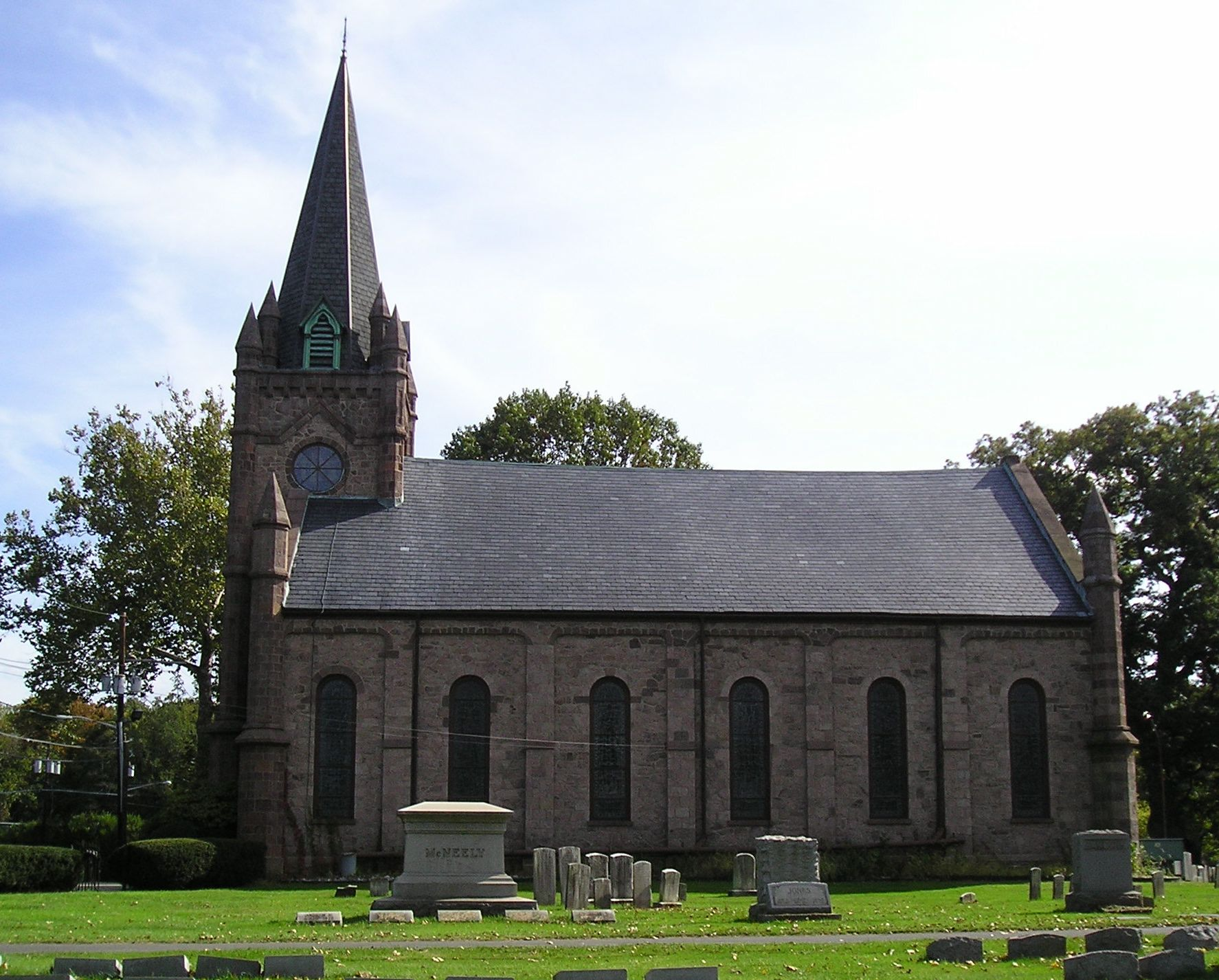 View of Ewing Presbyterian Church